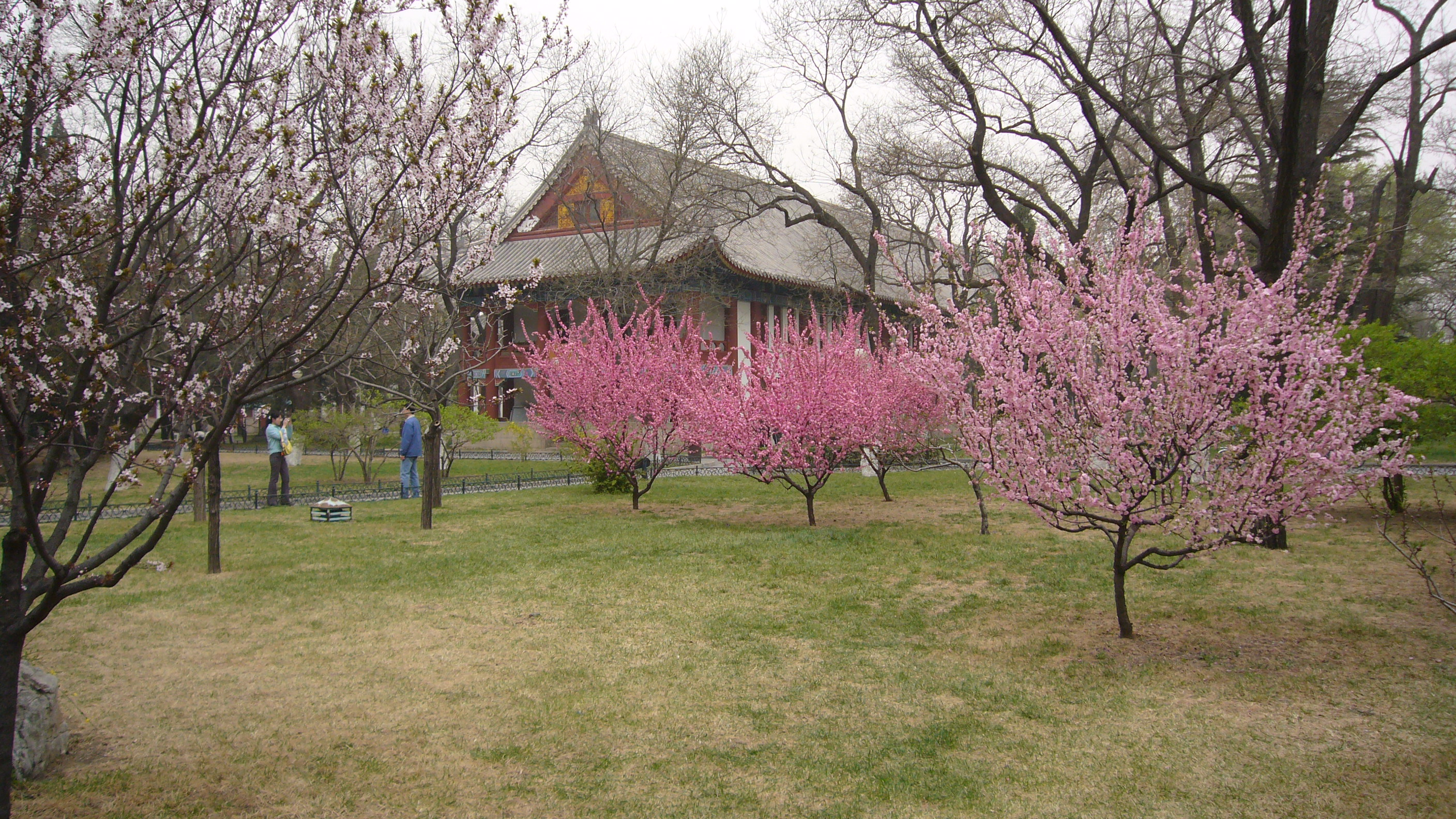 Peking University campus during spring